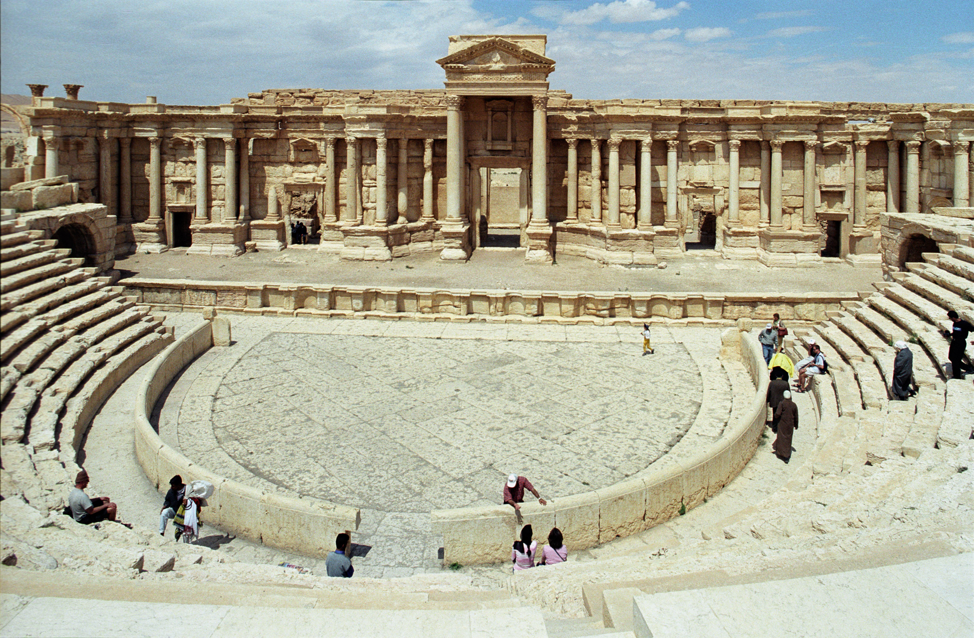 Palmyra, theater